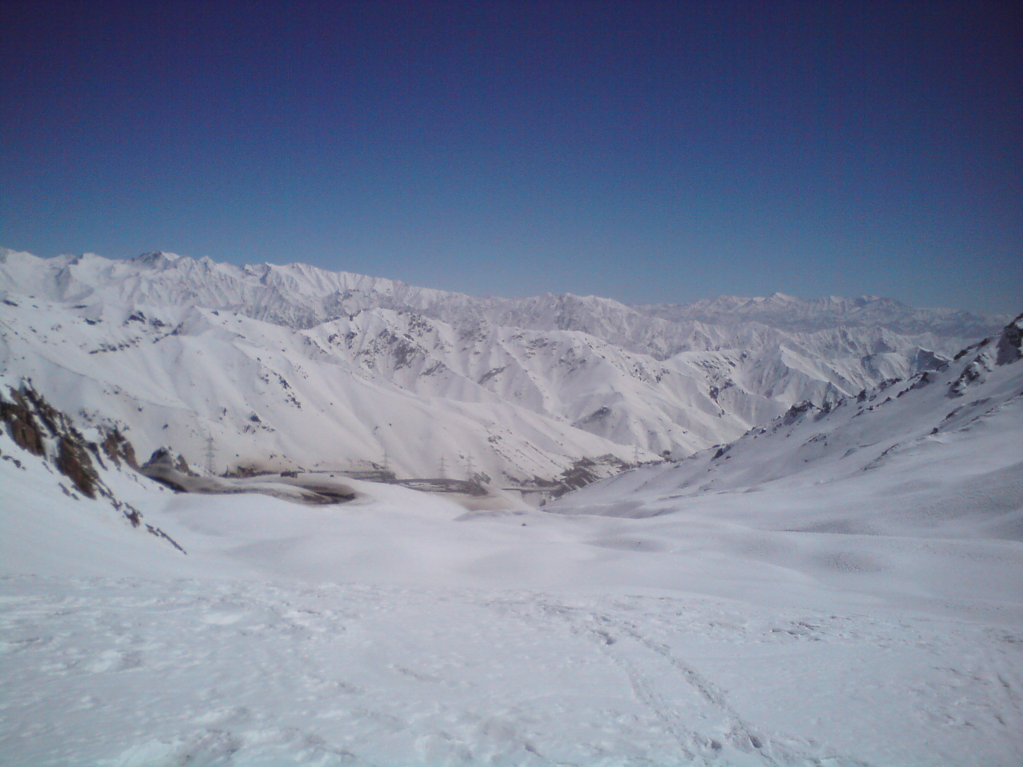 View down to the main road, just before it enters the Salang Tunnel coming from Kabul direction.